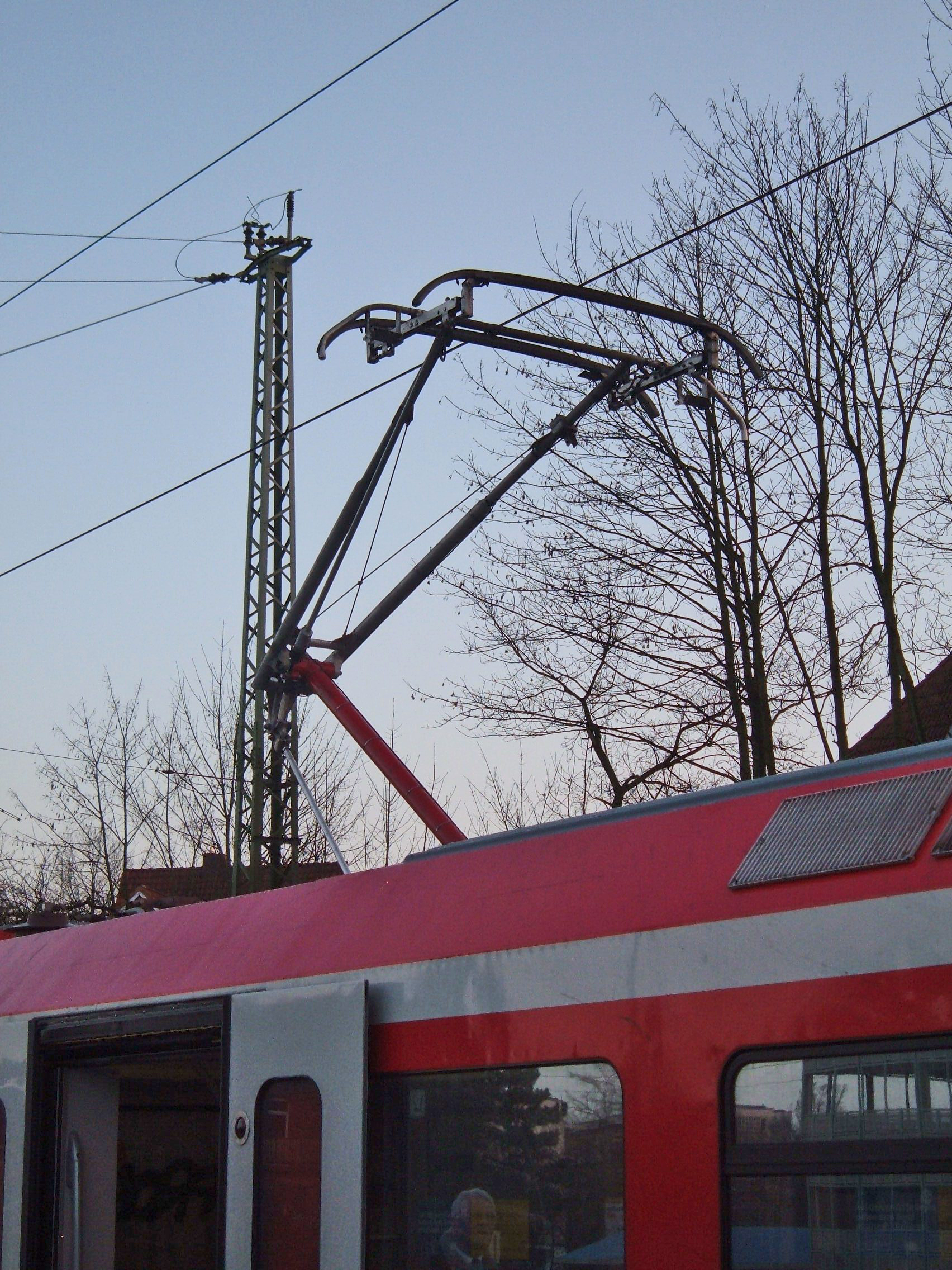 Dual system train's pantograph of Hamburg S-Bahn